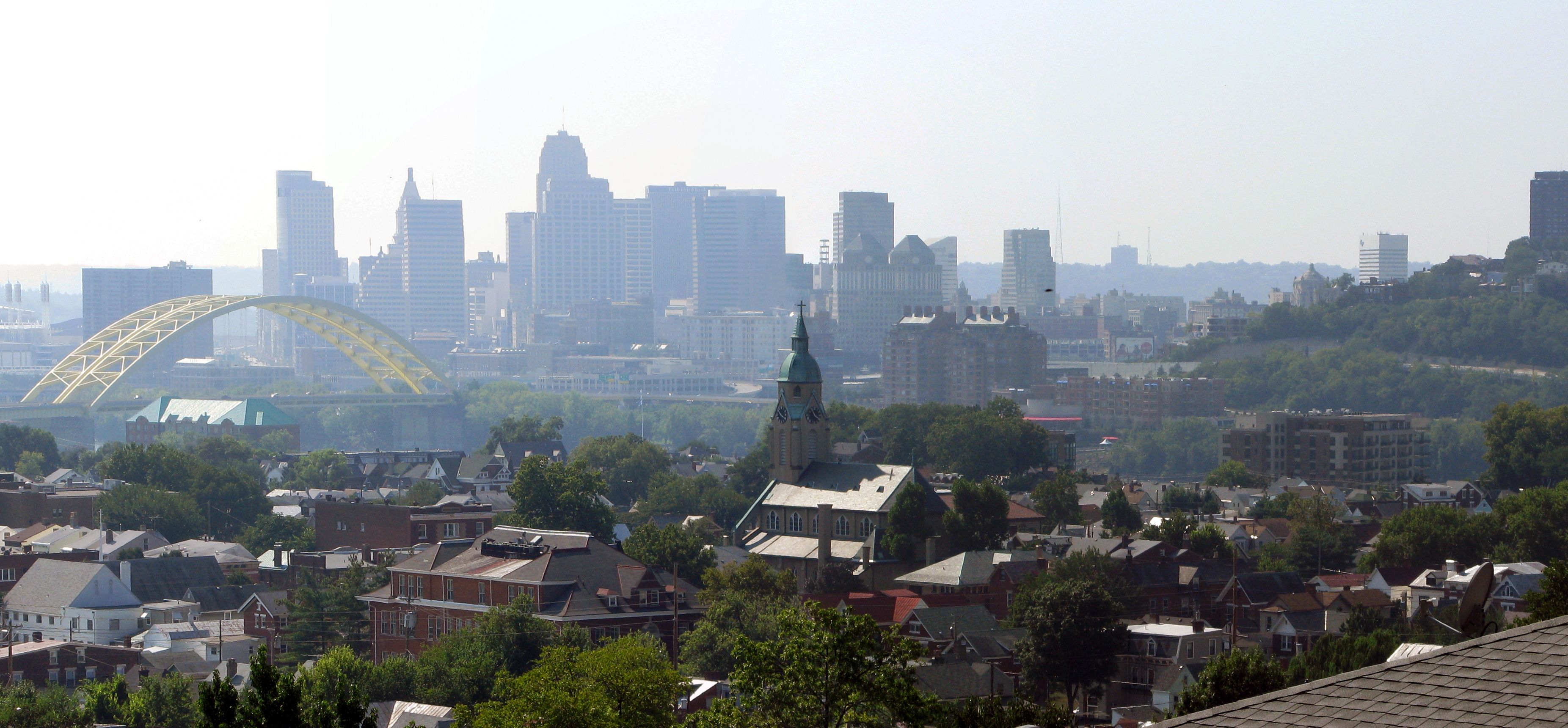 Sacred Heart Church in the city of Bellevue, Kentucky with Cincinnati, Ohio in the distance.